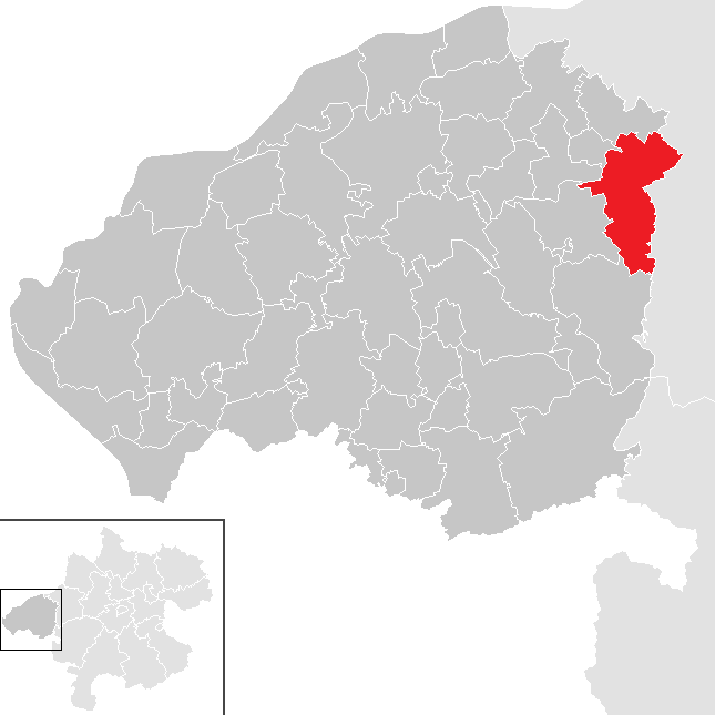 district Braunau am Inn